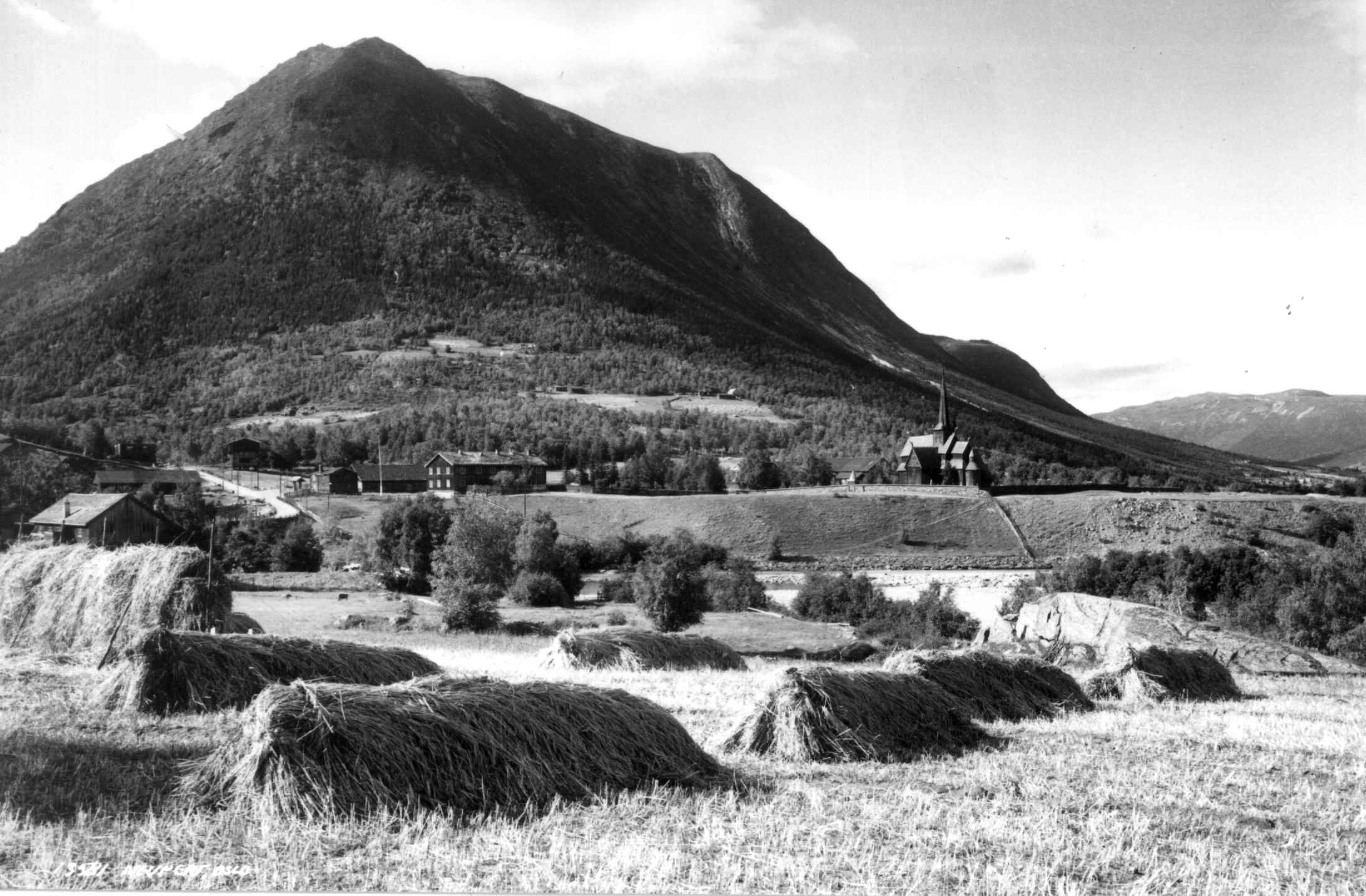 Lom stave church and fields with haystacks in 1935.